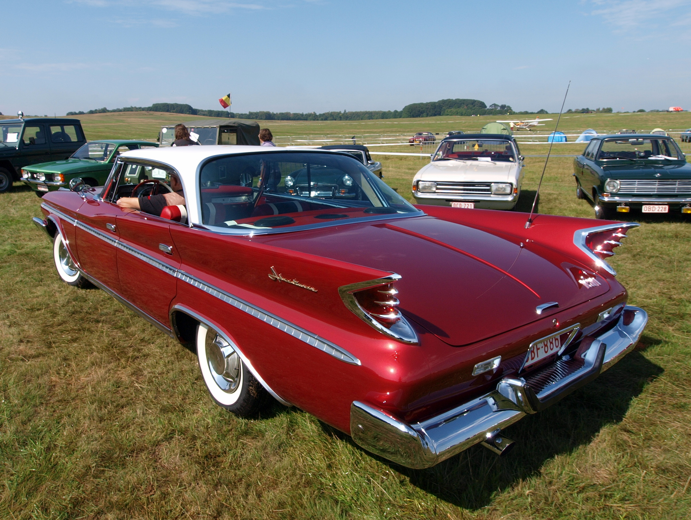 1960 DeSoto Adventurer arriving at The International Oldtimer Fly and Drive In 2010, Schaffen-Diest, Belgium.